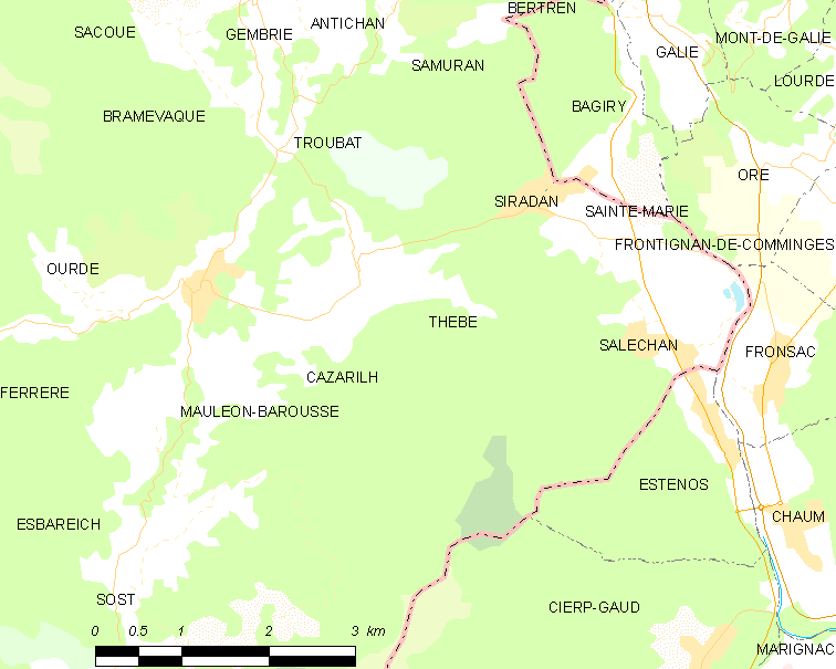 Map of French municipality